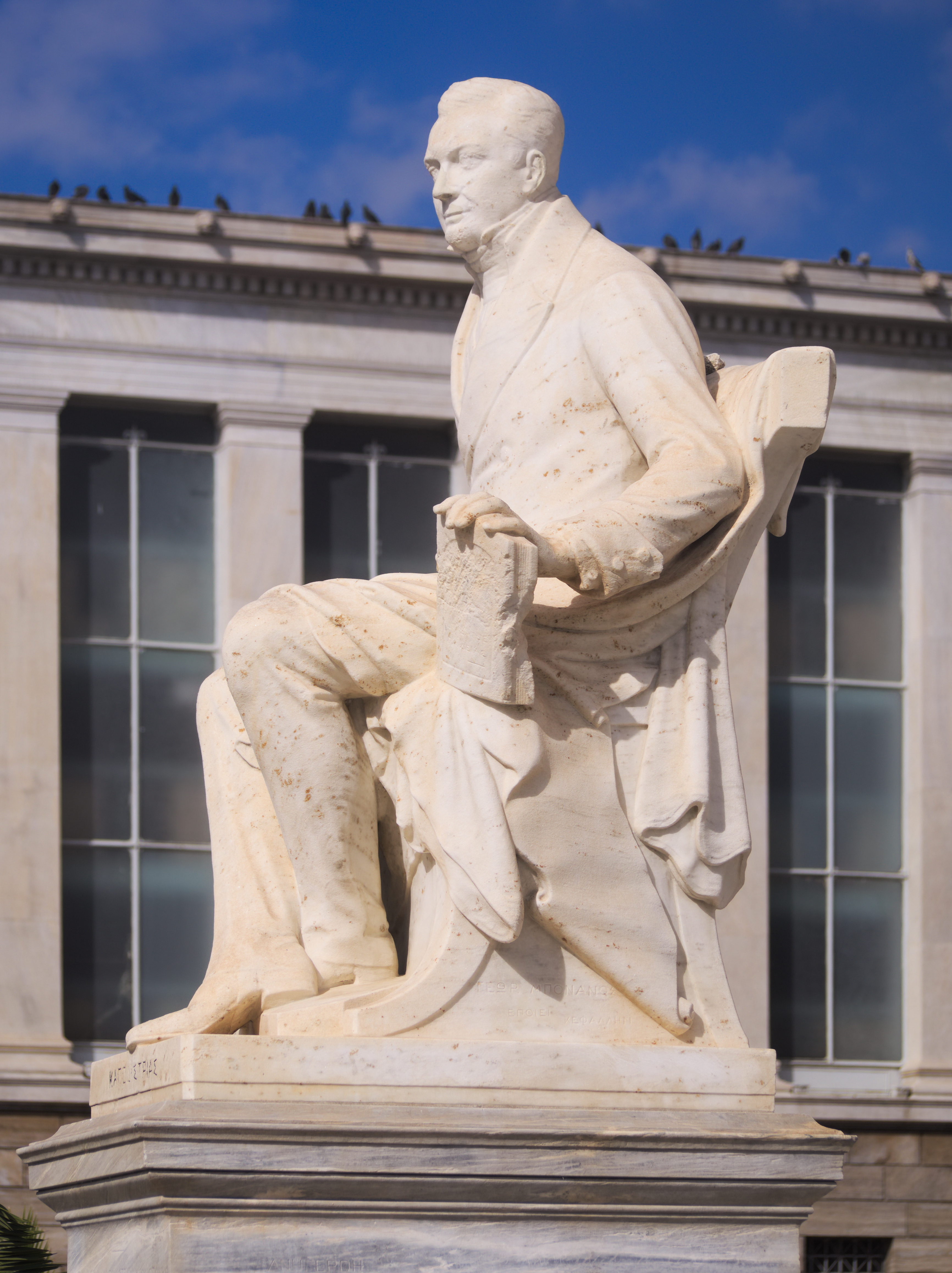 Statue of Ioannis Kapodistrias in front of the National and Kapodistrian University of Athens. The building at the background is the National Library.